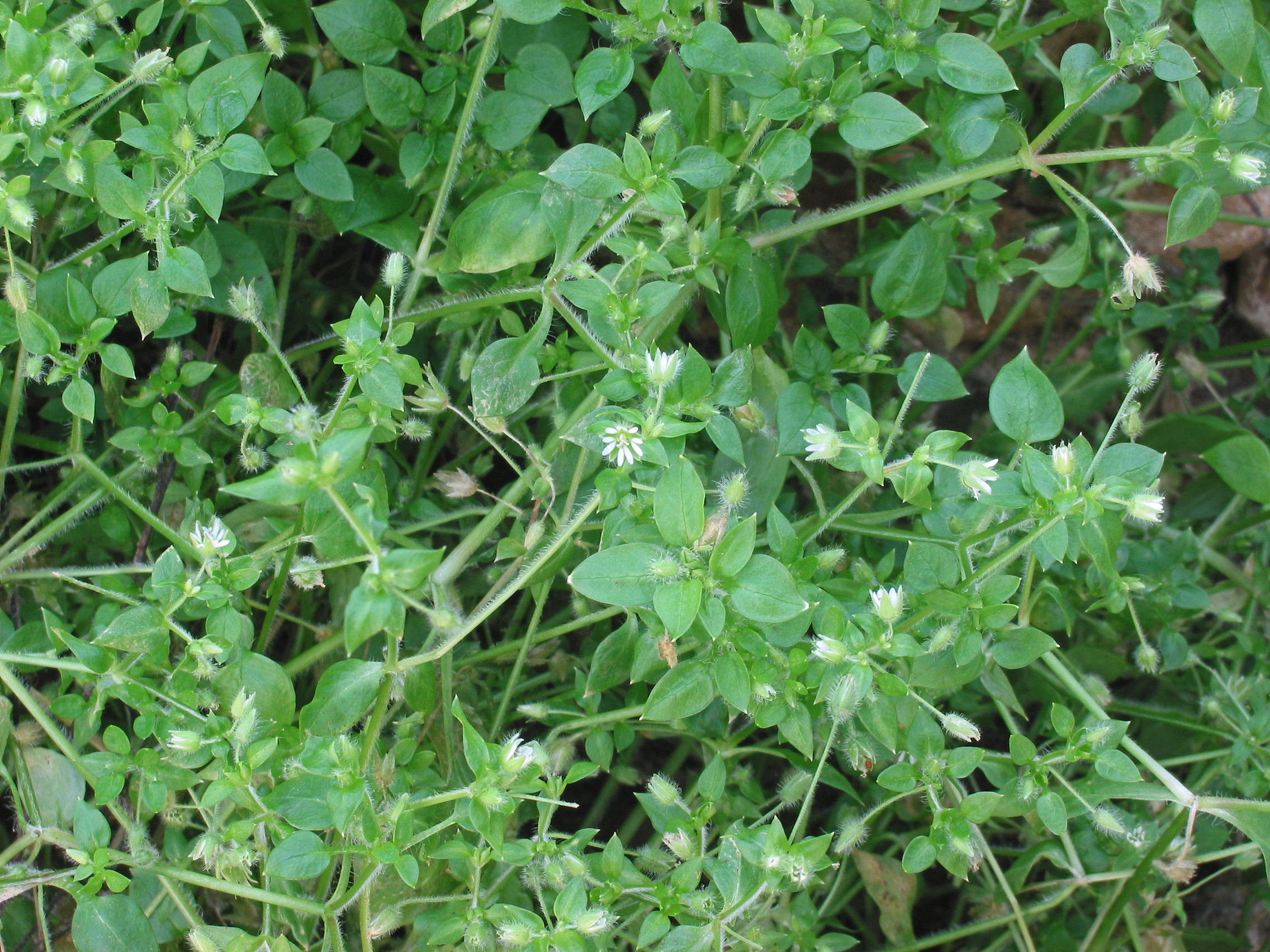 picture made by myself; Stellaria media; vogelmuur; eind december